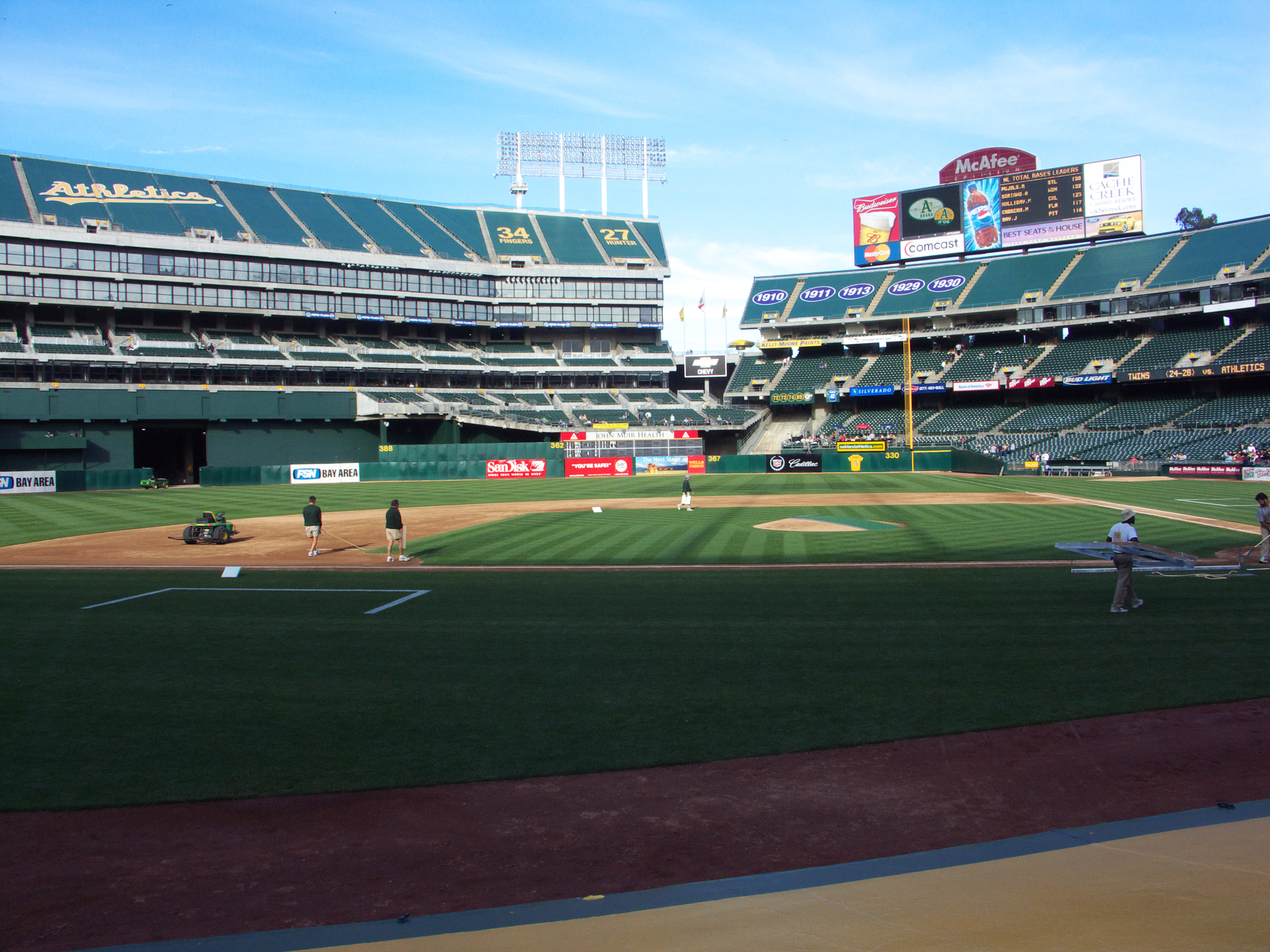 McAfee Coliseum